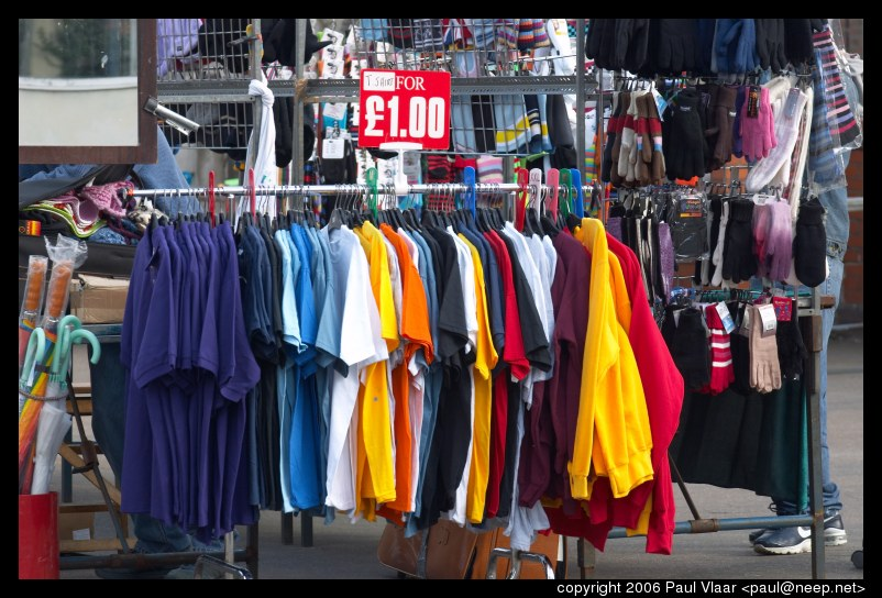 Clothes for sale at the Greenwich market.